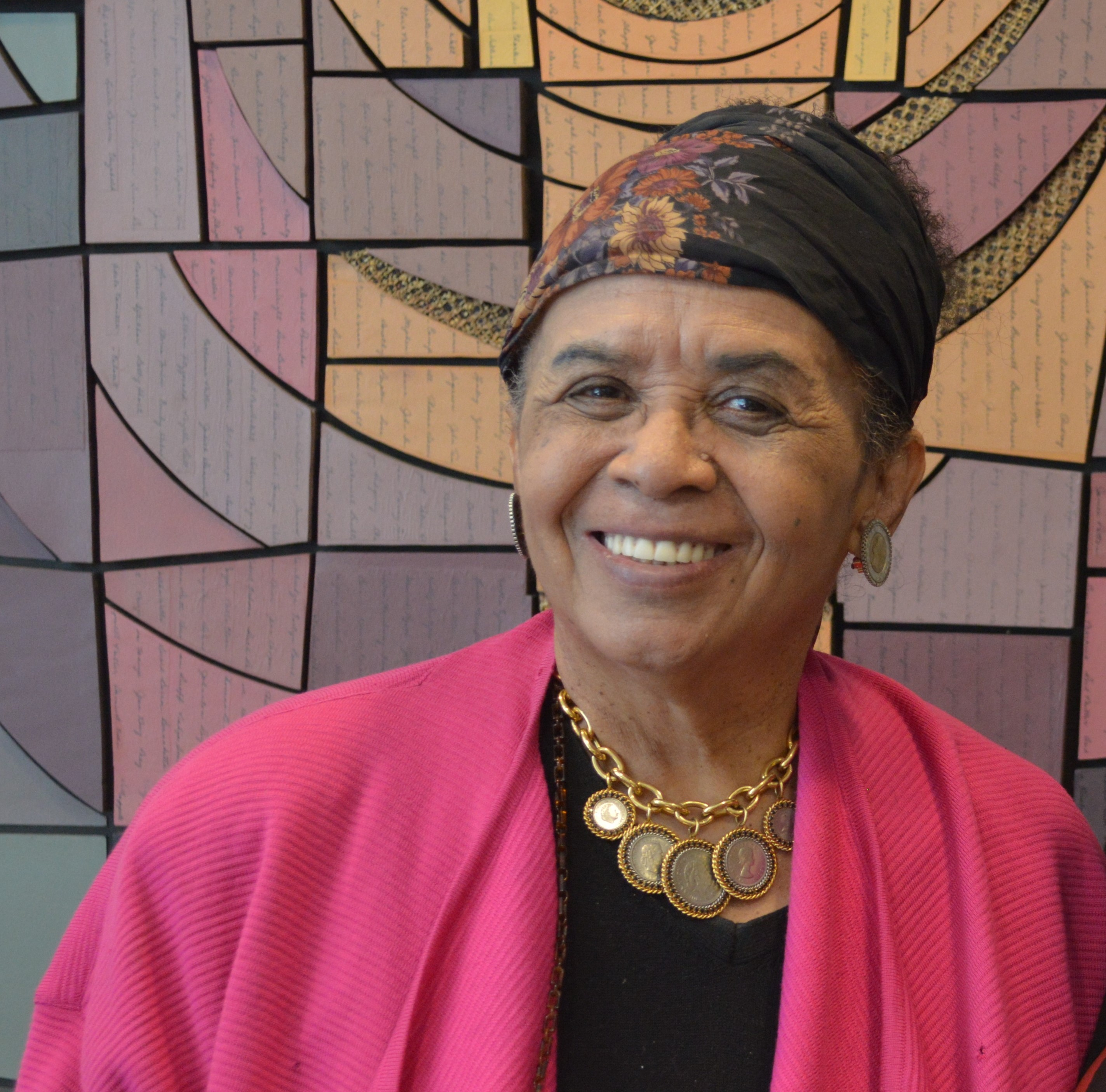 SNCC veteran Dorie Ladner at the convening called "Power of Protest: Lessons of Vietnam" in Washington, DC on May 1, 2015. Photo by Deborah Menkart.